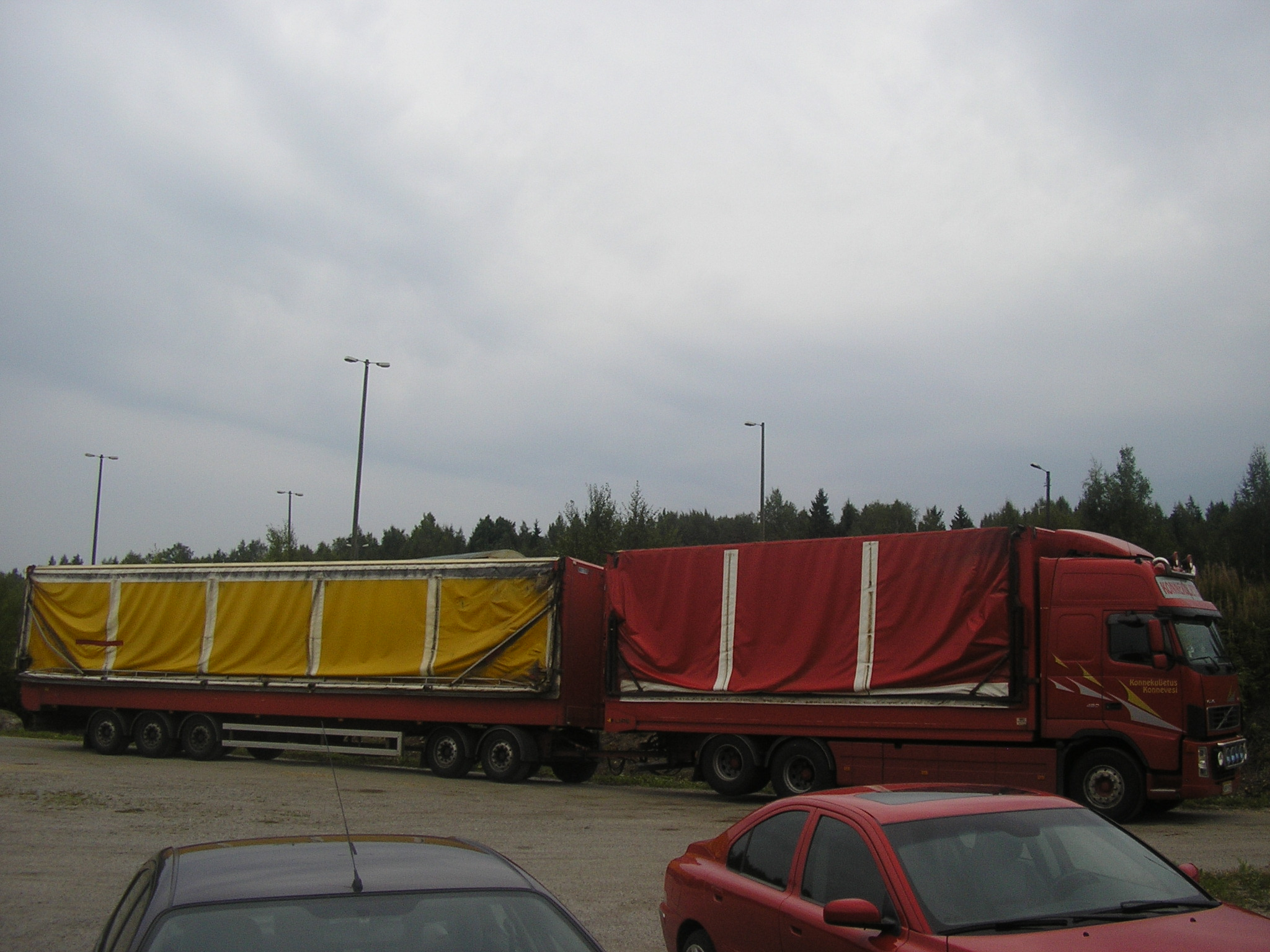 Volvo FH truck in Äänekoski